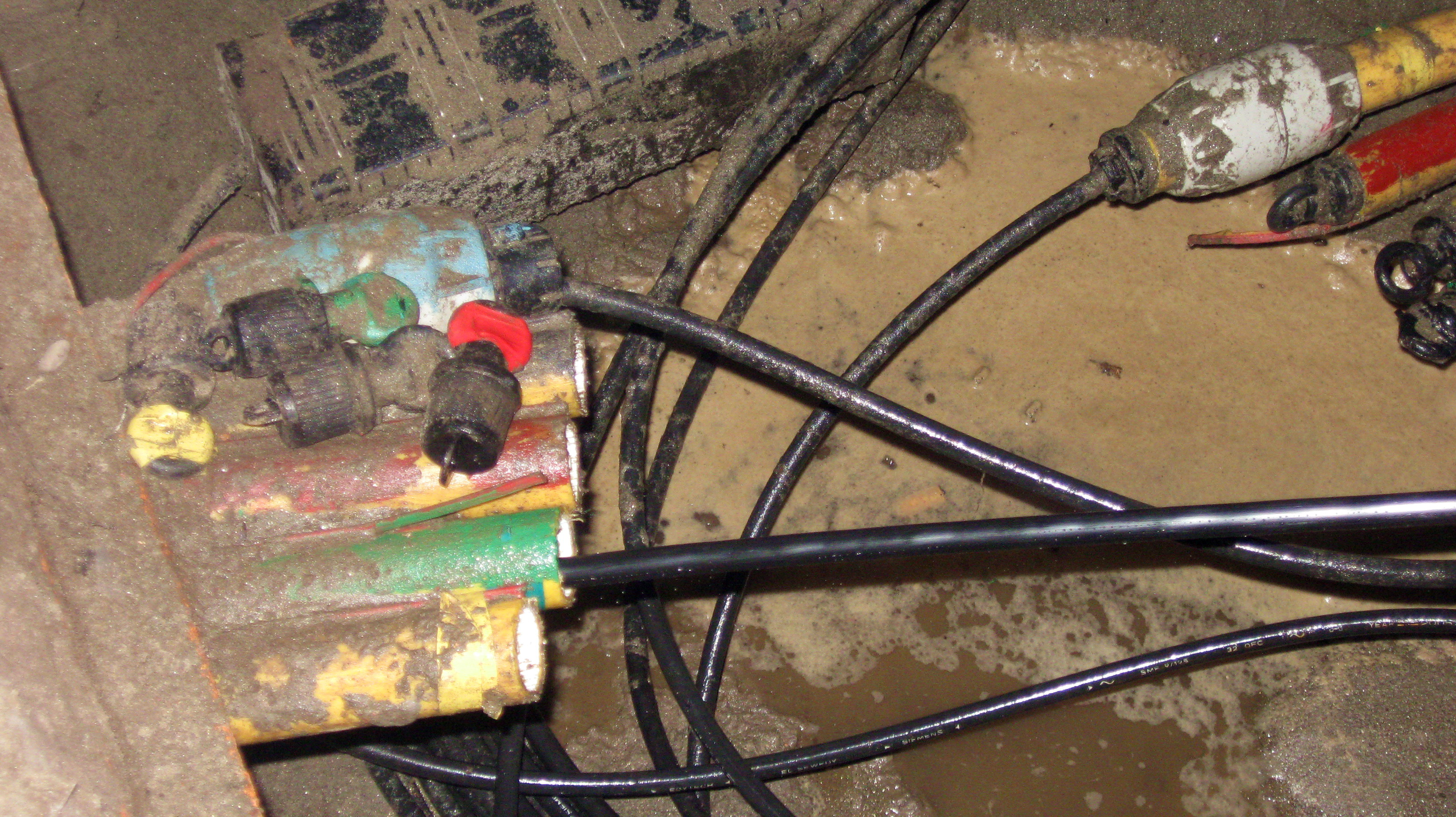 The receiving end of cable jetting, being performed by Bangalalink at Shantinagar, Dhaka. There're also being seen two different couplers for fibers and ducts. কেবল-জেটিং পদ্ধতিতে ফাইবার অপটিক ব্লোয়িং-এর অপর প্রান্ত।